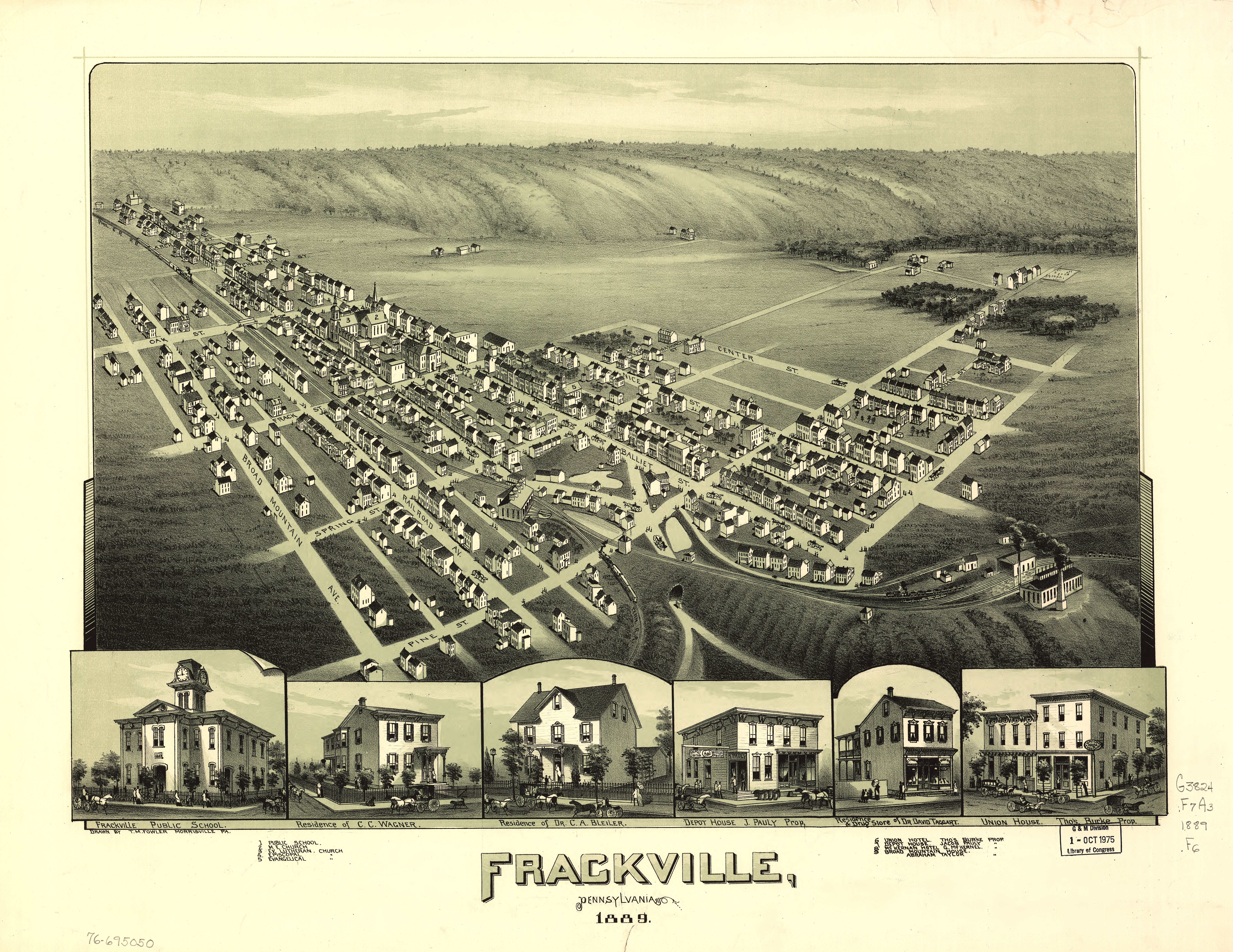 Bird's-eye view of Frackville, Pennsylvania in 1889 by Fowler, T. M. From the Library of Congress, their metadata follows: Frackville, Pennsylvania. Fowler, T. M. 1842-1922. (Thaddeus Mortimer), CREATED/PUBLISHED Morrisville, Pa., 1889. NOTES Perspective map not drawn to scale. Bird's-eye-view. Reference: LC Panoramic maps (2nd ed.), 777.1 Includes col. illus. and index to points of interest. SUBJECTS Frackville (Pa.)--Aerial views. United States--Pennsylvania--Frackville. MEDIUM col. map 43 x 61 cm. CALL NUMBER G3824.F7A3 1889 .F6 REPOSITORY Library of Congress Geography and Map Division Washington, D.C. 20540-4650 USA DIGITAL ID g3824f pm007771